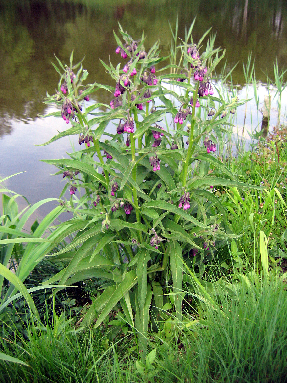 Common comfrey (Symphytum officinale), flowering, growing on the bank of the larger pond in the Sołtysowicki Forest, Wrocław, Poland.